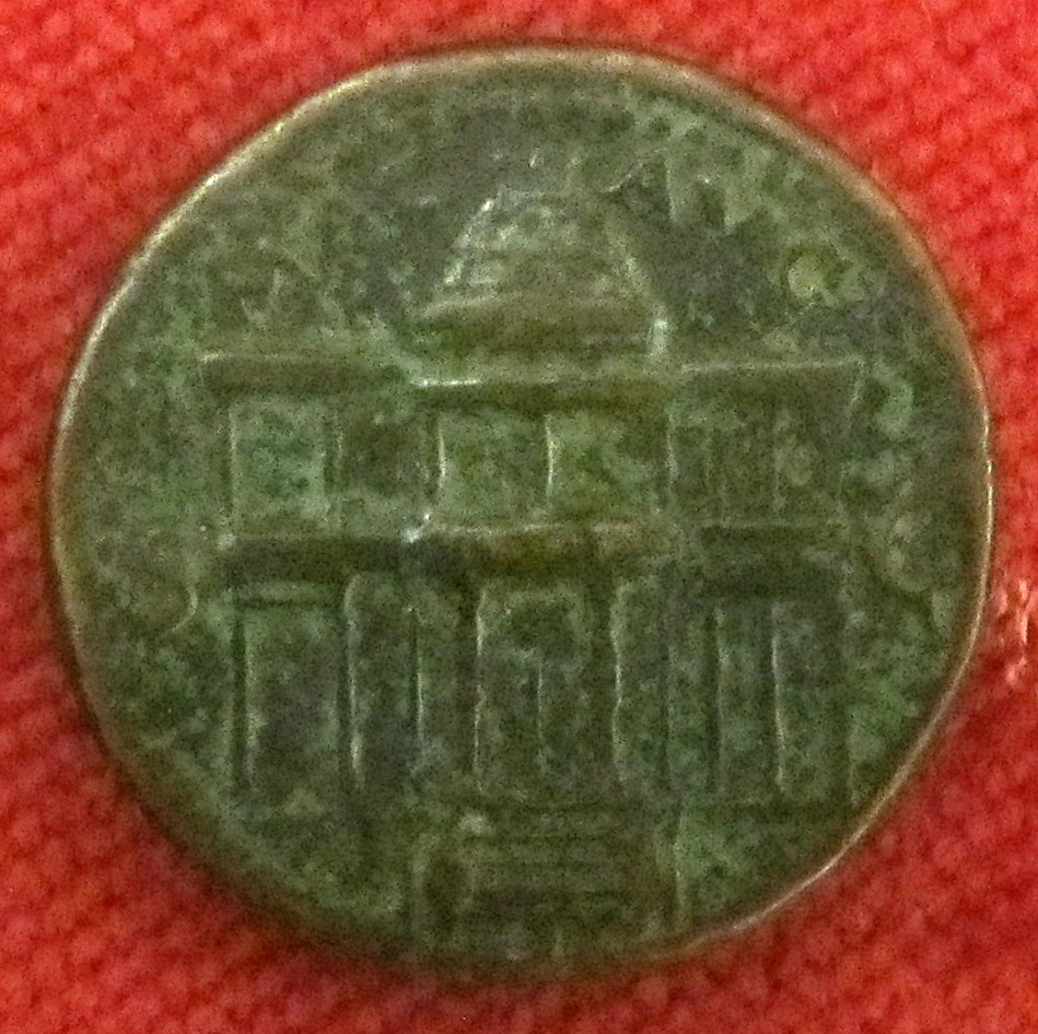 Ancient Roman coins in the Museo archeologico nazionale (Florence)